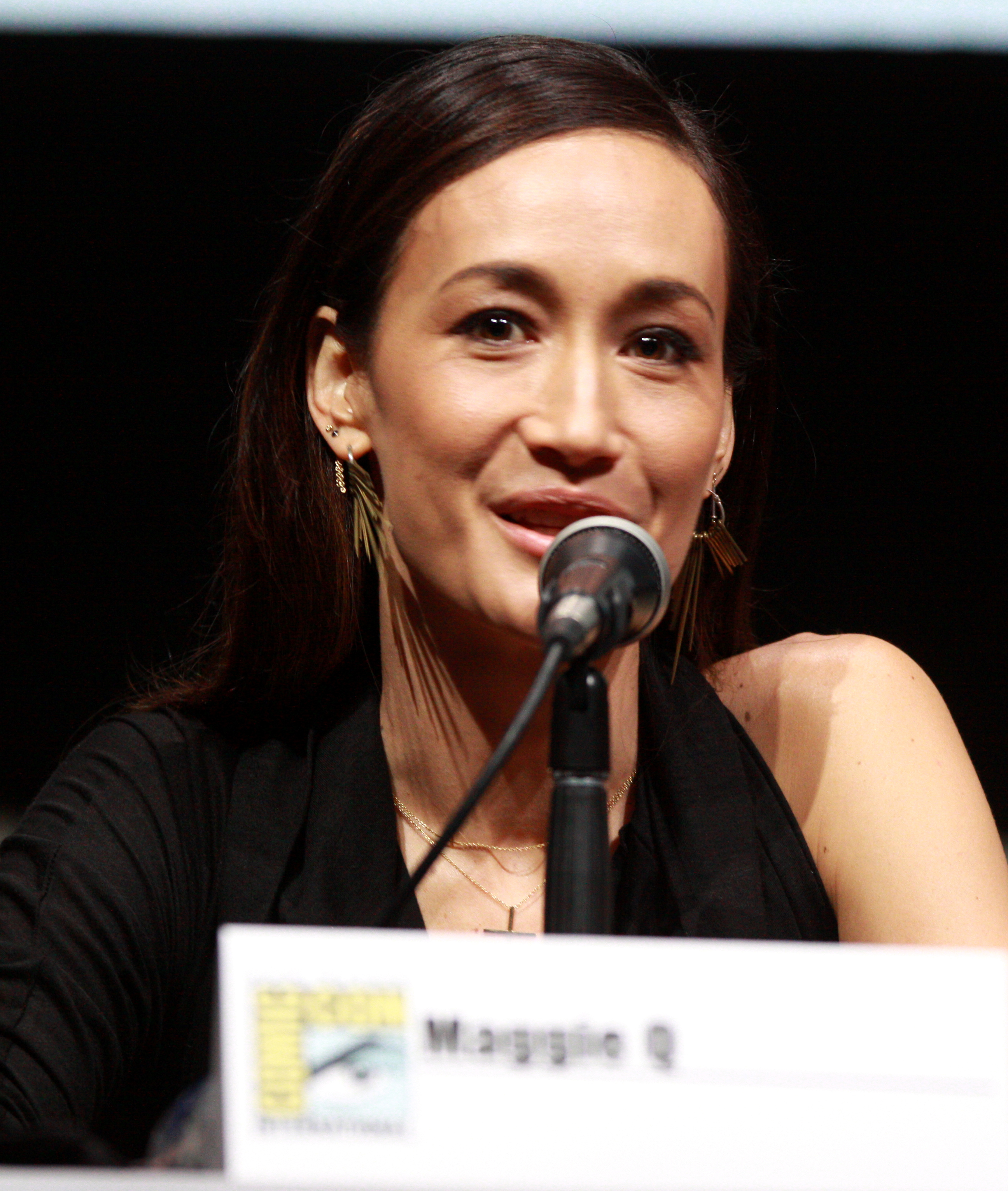 Maggie Q at the 2013 San Diego Comic Con International in San Diego, California.